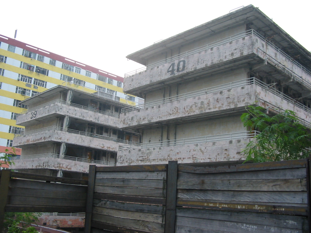 Block 39 and 40, Shek Kip Mei Estate. Waiting for redevelopment.